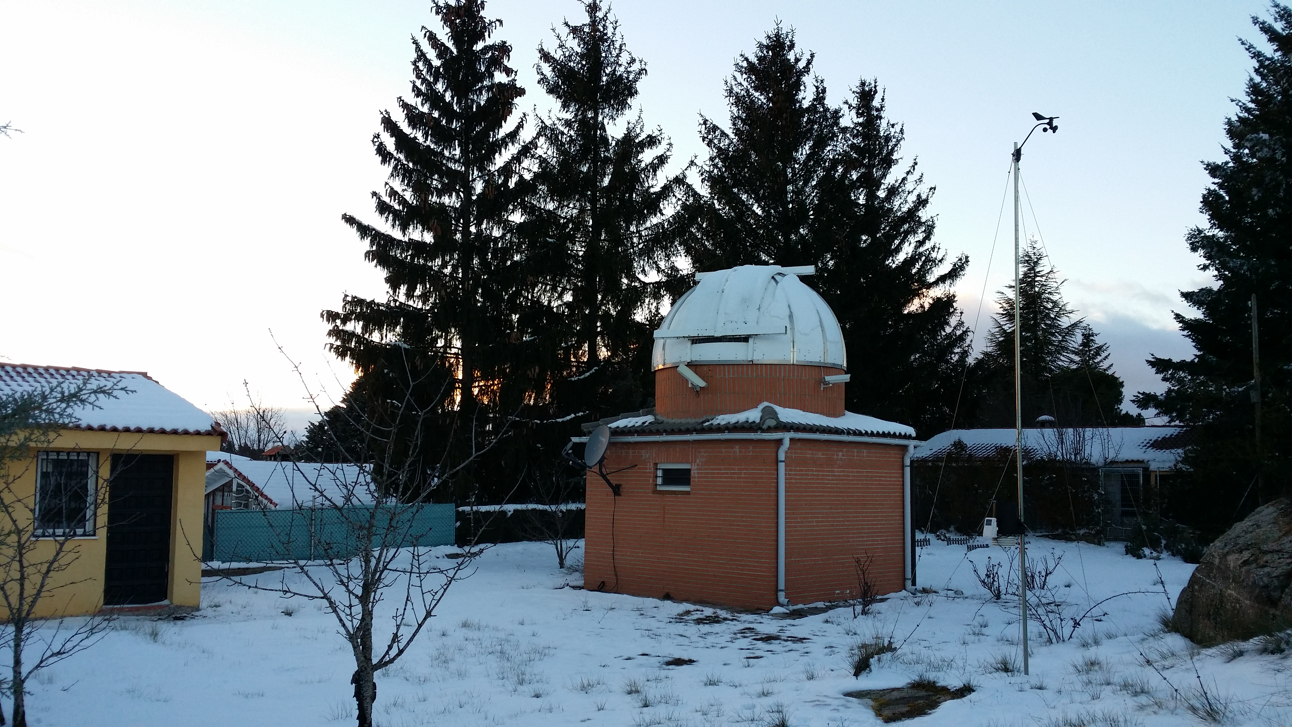 La Cañada Observatory 24-Jan-2015